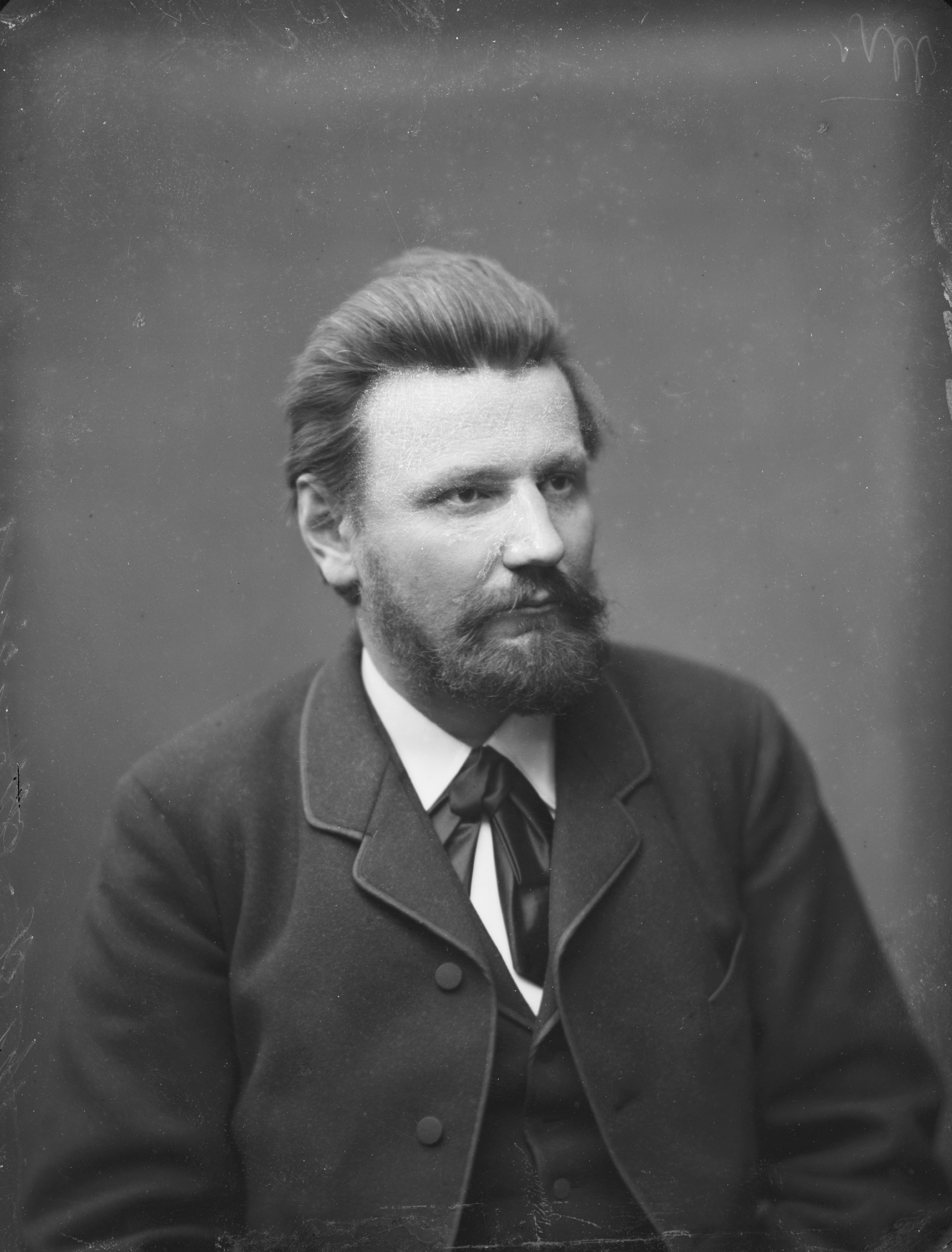 Photograph of the Finnish garden architect Mårten Gabriel Stenius (1844–1906).